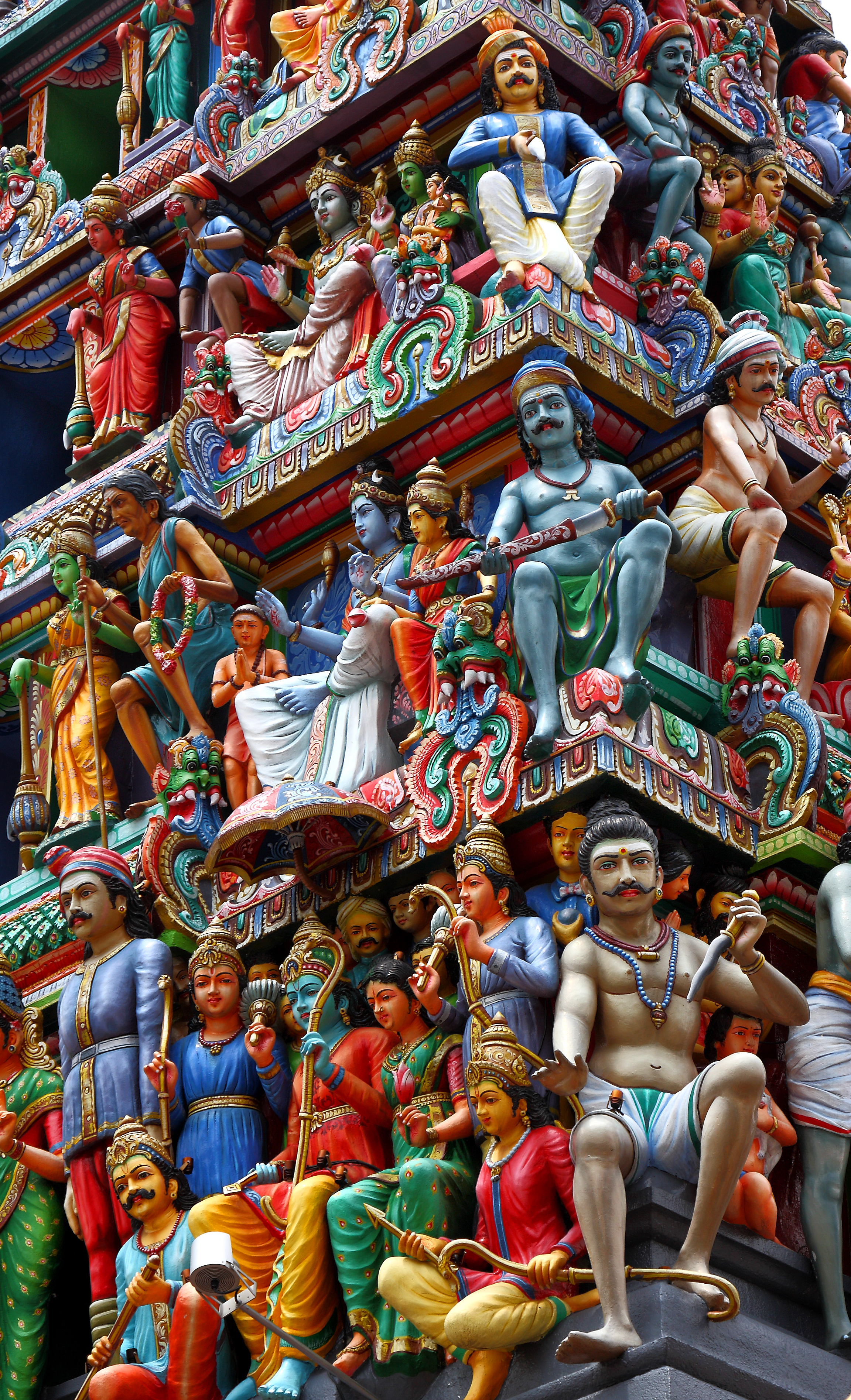 Detail view on the gopuram (tower) at the entrance of the Sri Mariamman Temple (Singapore)